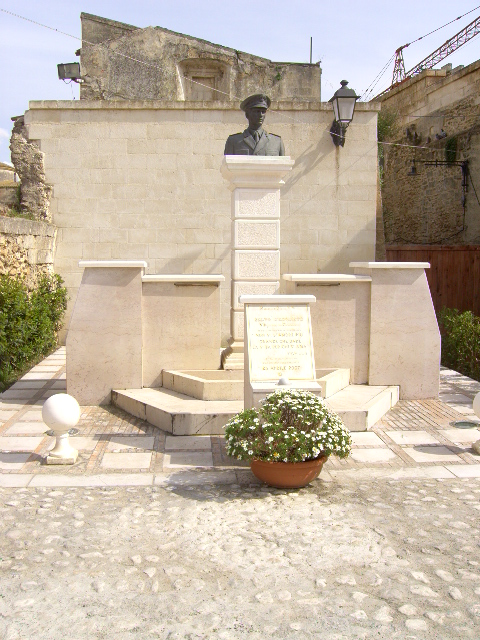 Bust of Salvo D'Acquisto